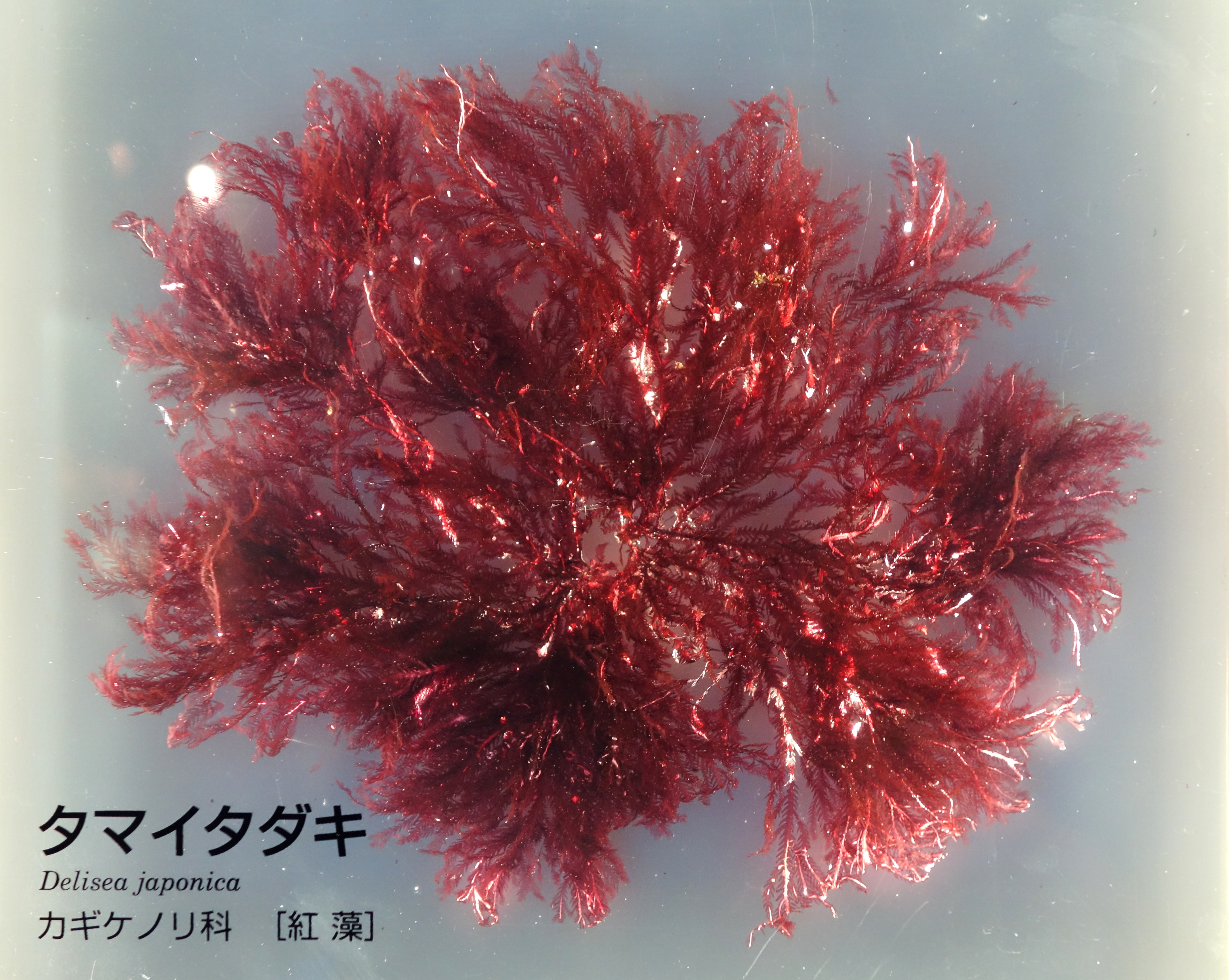 Exhibit in the National Museum of Nature and Science, Tokyo, Japan.